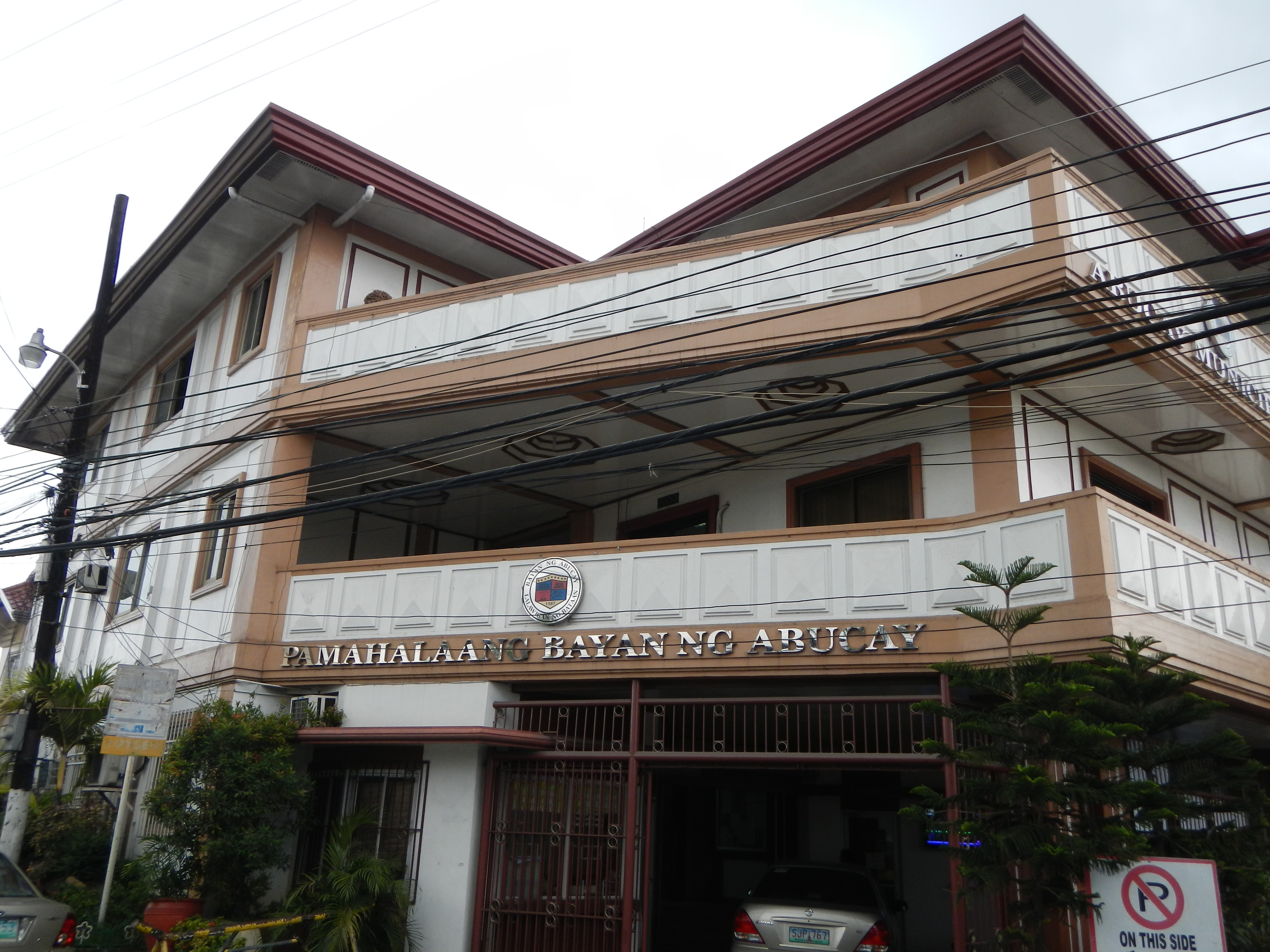 Abucay, Bataan[1][2][3]Coordinates: 14°43'34"N 120°28'10"E